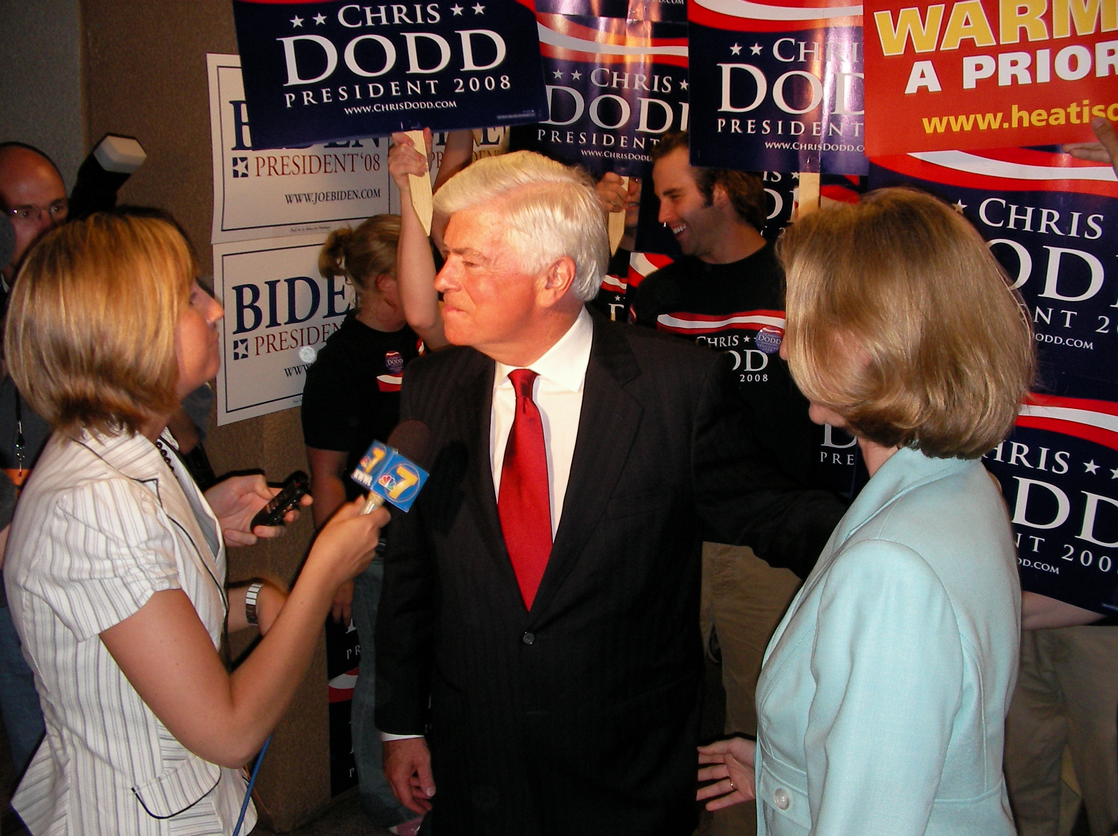 Connecticut Sen. Chris Dodd speak with the media prior to the June 2 IDP Hall of Fame dinner in Cedar Rapids.